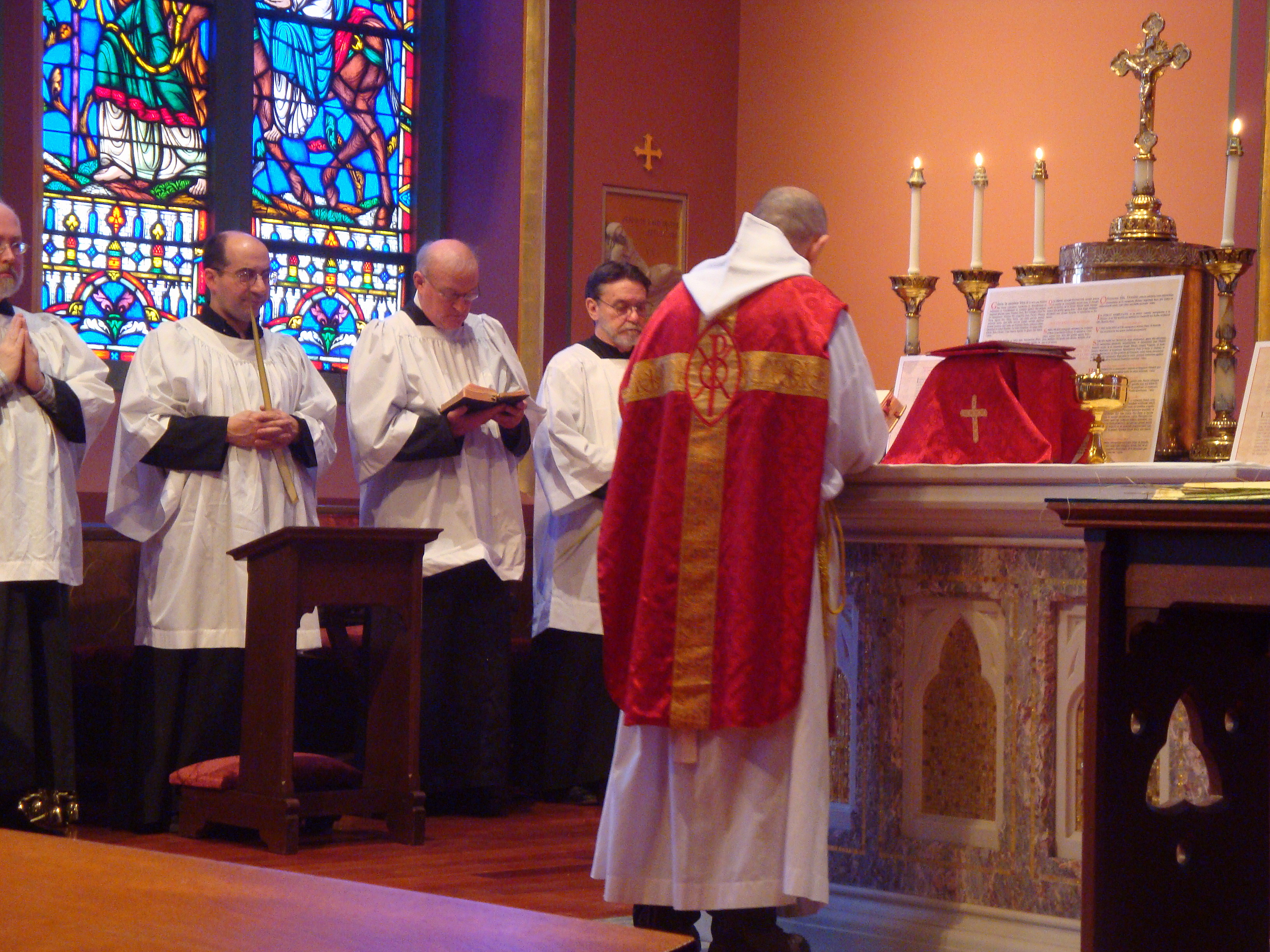 Mass celebrated on Palm Sunday in the chapel of Cathedral of the Holy Cross in Boston. April 2009 photo by John Stephen Dwyer.